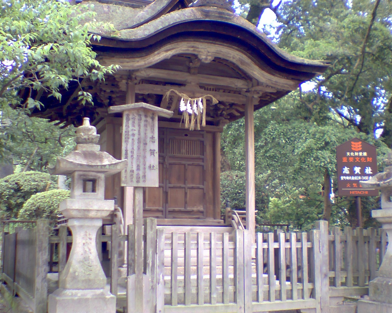 This photograph is a mini jinja called "Shigasya (ja : 志賀社)" which in the Dazaifu Tenman-gū, Dazaifu city, Fukuoka prefecture, Japan.